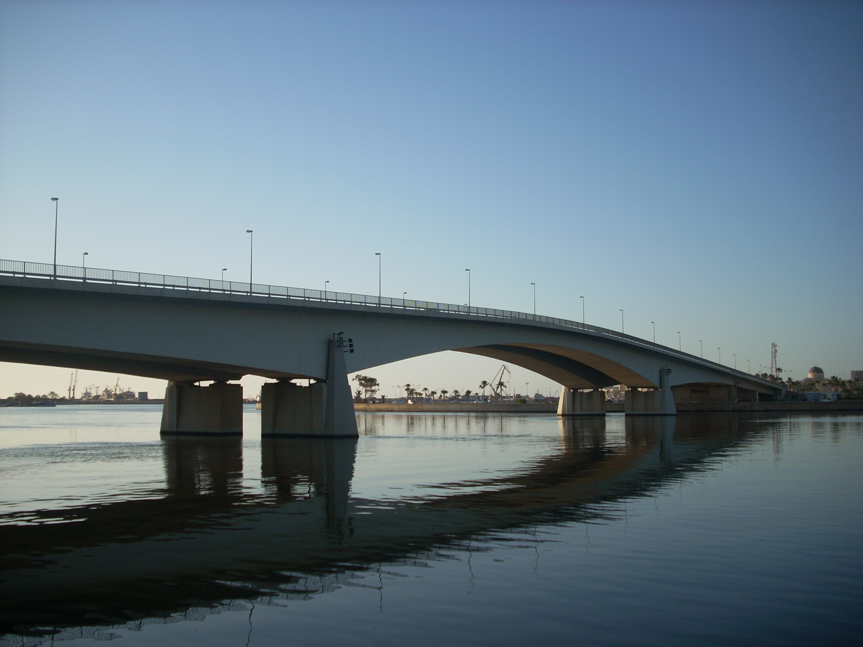 The Jeliana Bridge in Benghazi, Libya over the 23rd of July lake.